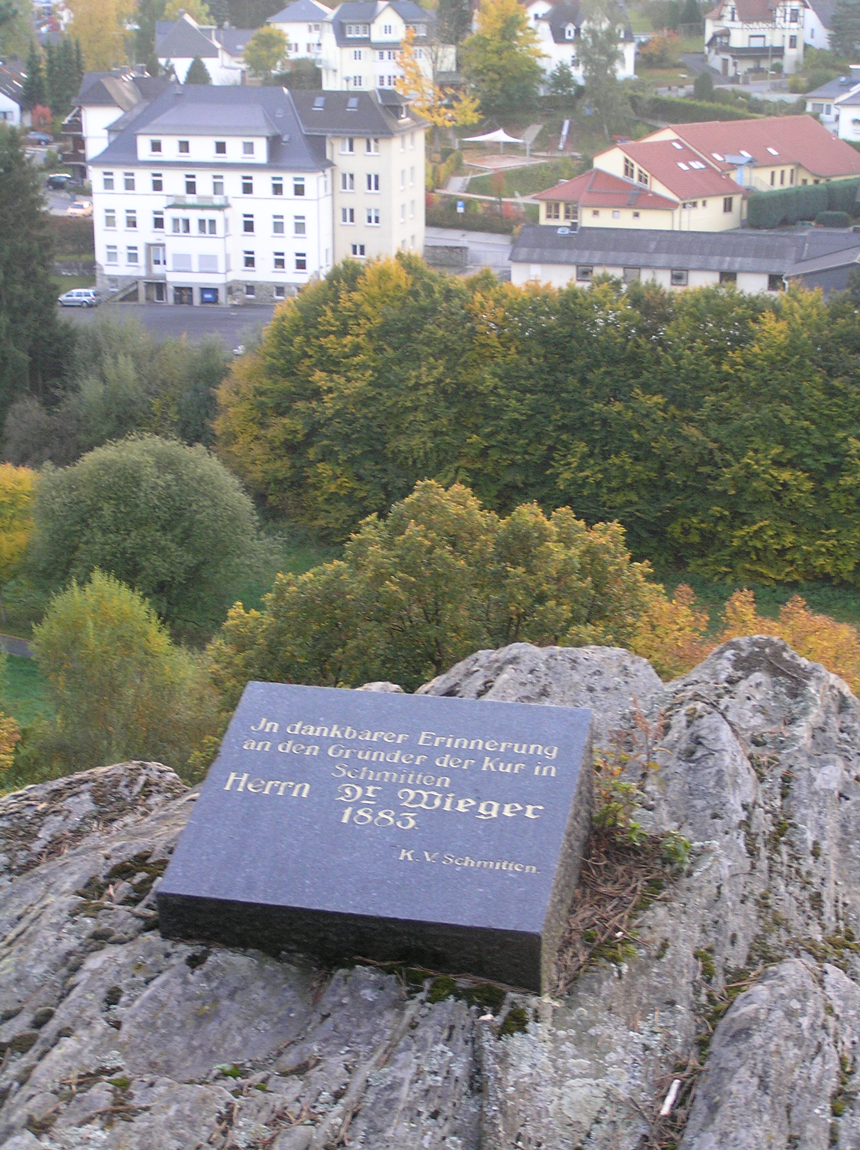 Schmitten, Germany: City Hall from "Wiegerfelsen"